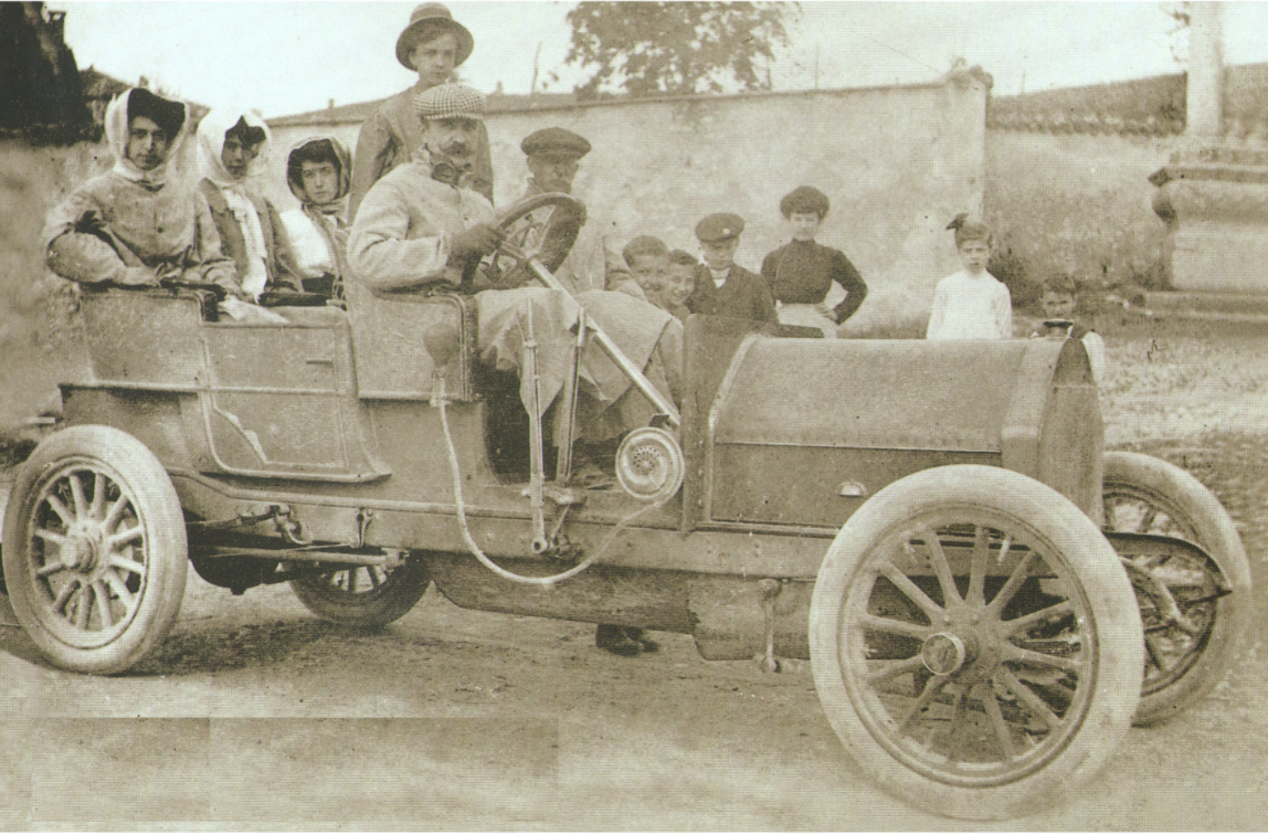 A.L.F.A. 24 HP Torpedo. A.L.F.A. director Giuseppe Merosi at the wheel, family trip. This may have been a Prototype, in which case it was built before production started (it was produced 1910 to 1913). (c) Alfa Romeo Automobilismo Storico, Centro Documentazione (Arese, Milano)[1]